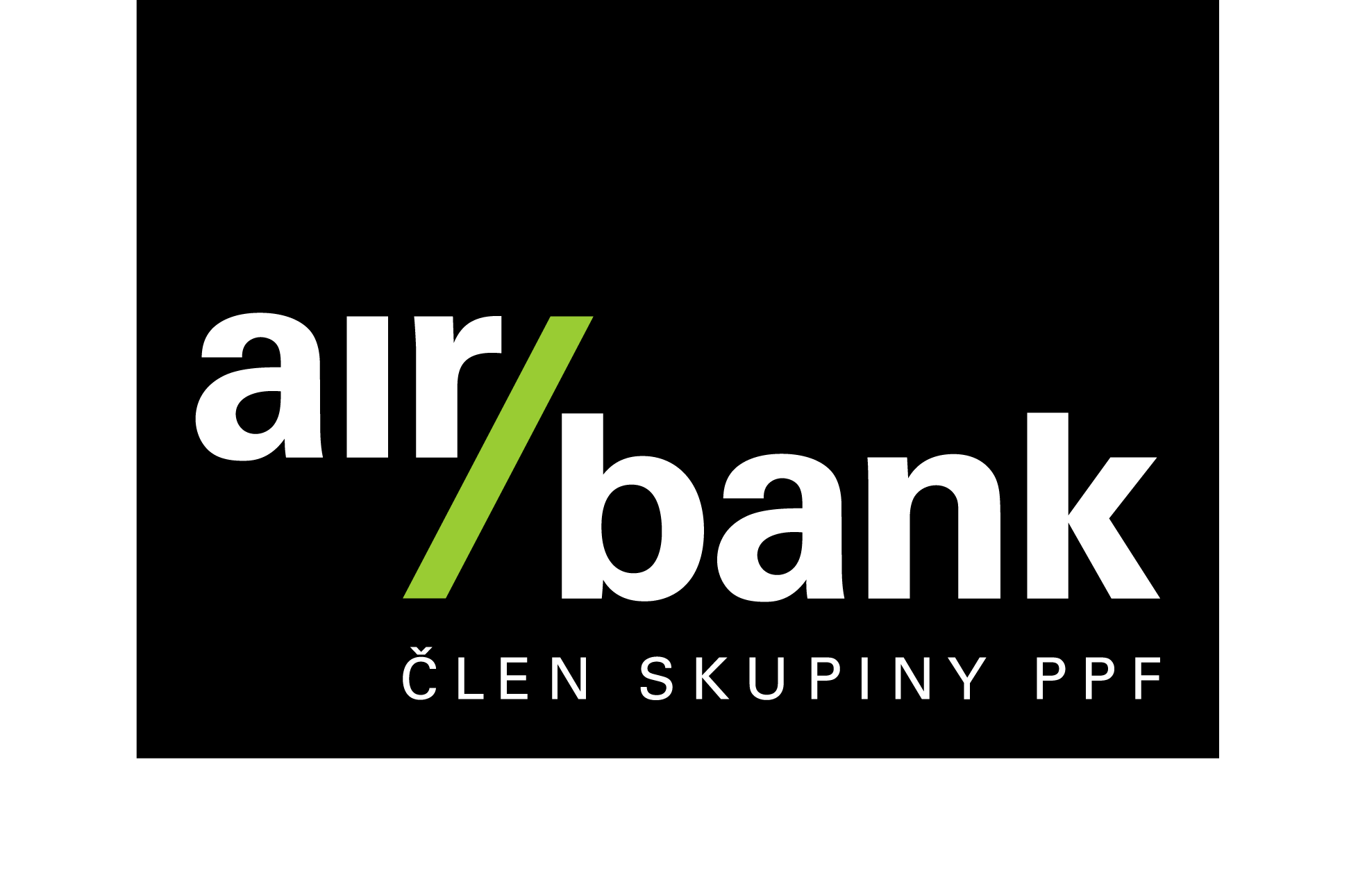 Air Bank logo